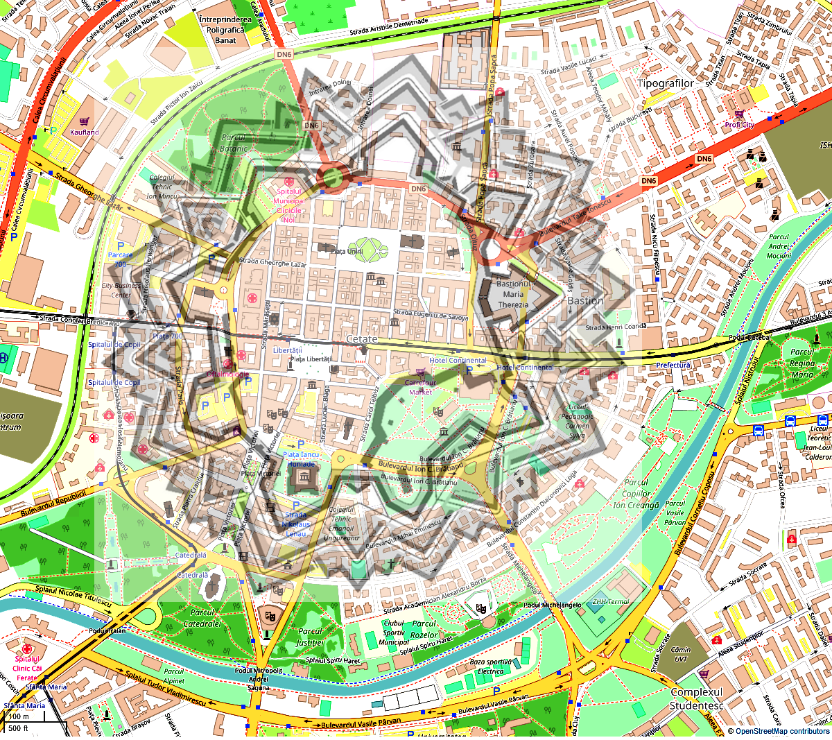 The Habsburgic fortifications on today's map of Timișoara.